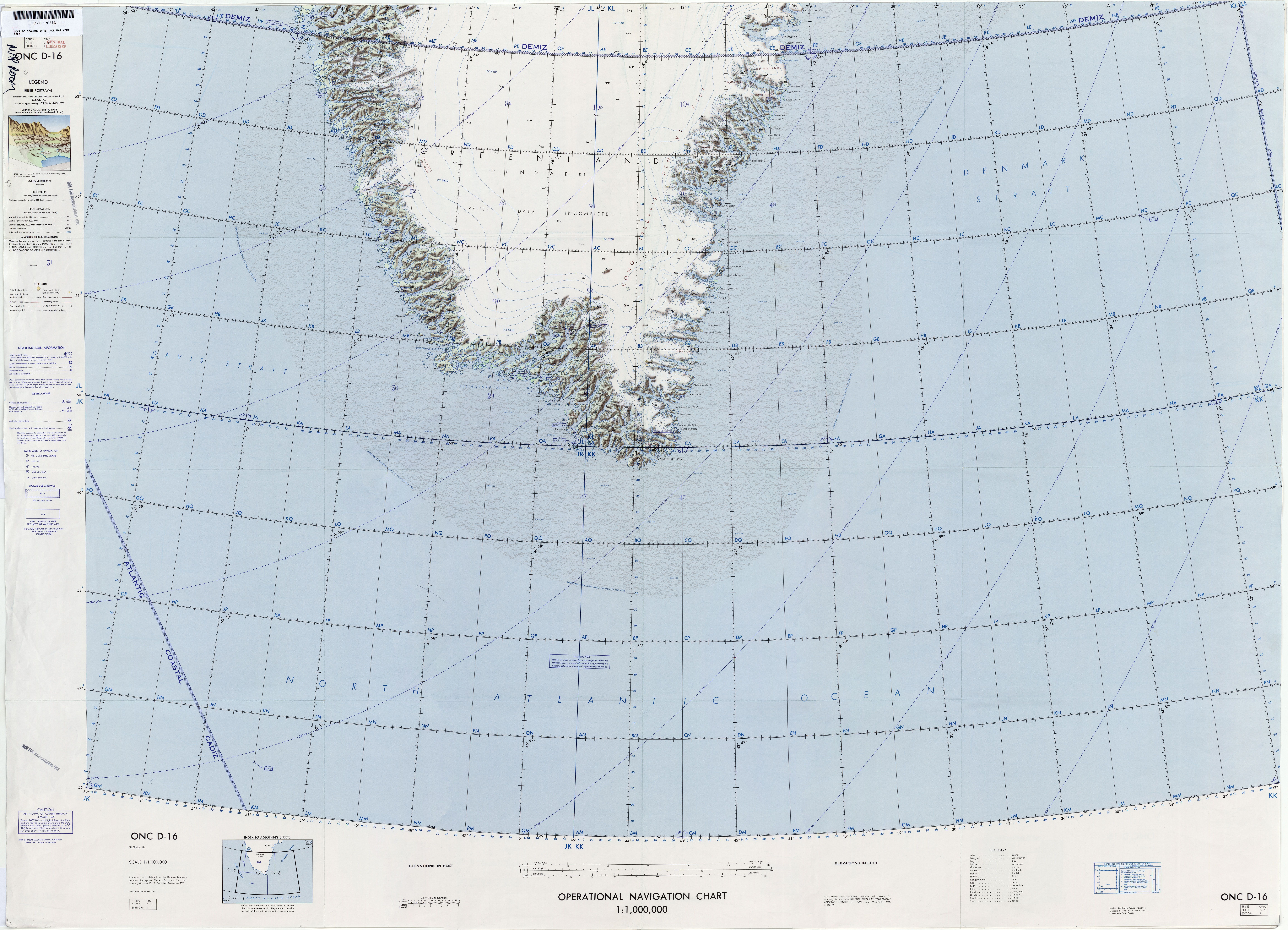 Operational Navigation Chart Series - World 1:1,000,000 Scale